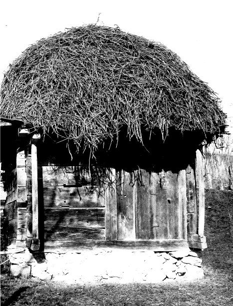 Above ground cellar at Runcu Gorj (cca 1980)